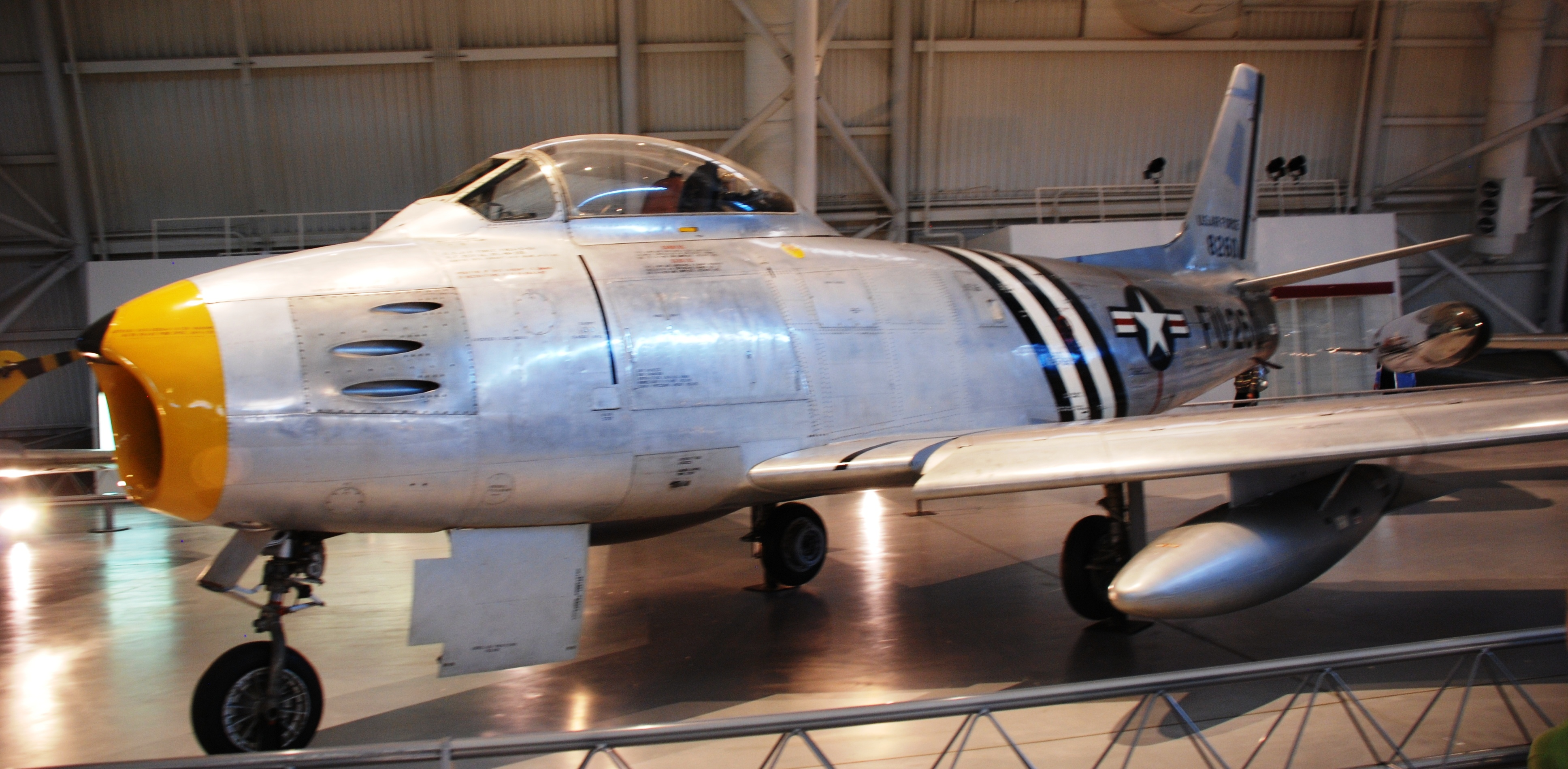 1=F-86A Sabre in Steven F. Udvar-Hazy Center Manufacturer: North American Aviation Inc. Date: 1947 Country of Origin: United States of America Dimensions: 450 x 1140cm, 4578kg, 1130cm (14ft 9 3/16in. x 37ft 4 13/16in., 10092.7lb., 37ft 7/8in.) Materials: All-metal structure with flush-riveted, stressed skin; natural metal finish. Physical Description: America's first operational swept-wing fighter (35 degrees); single-engine, single-seat, low-wing catilever monoplane, jet fighter.